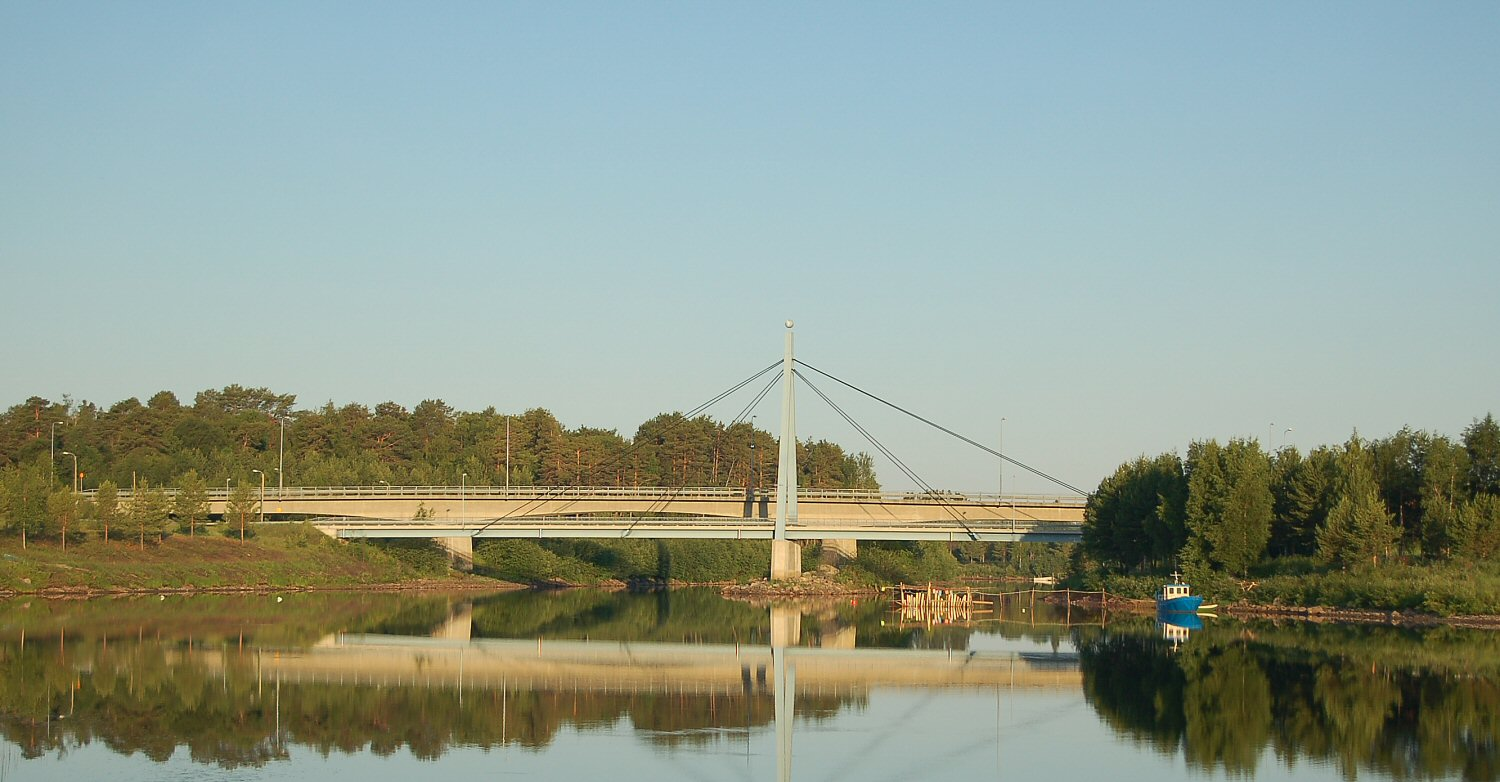 Bridges of Highway #4 (E8/E75) across Iijoki (River Ii) at Ii, Finland.